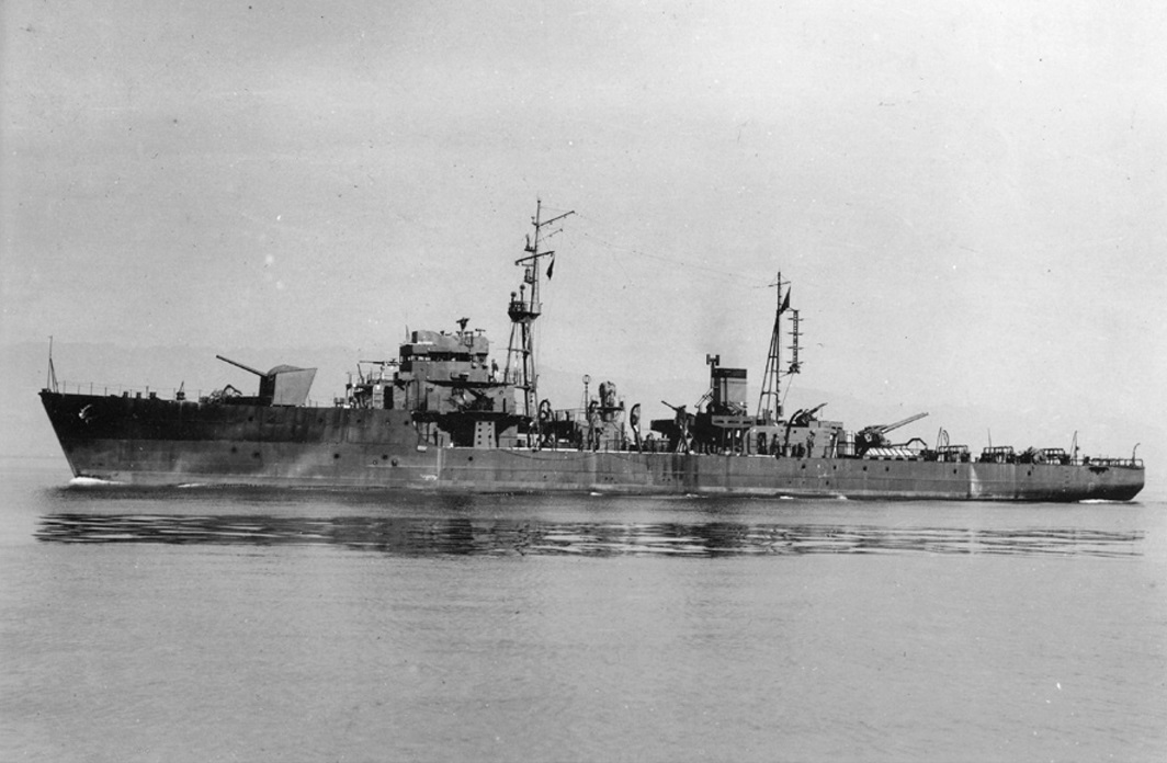 HIJMS Ikuna